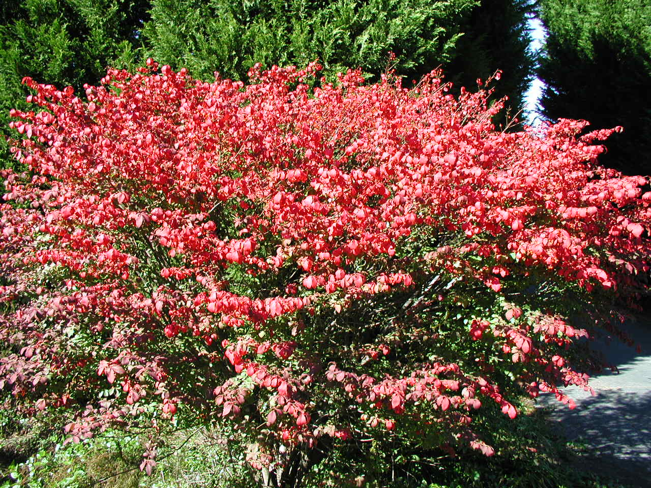 Euonymous alatus compactus (Dwarf Burning Bush). Photo taken 10-30-2008, North Carolina.